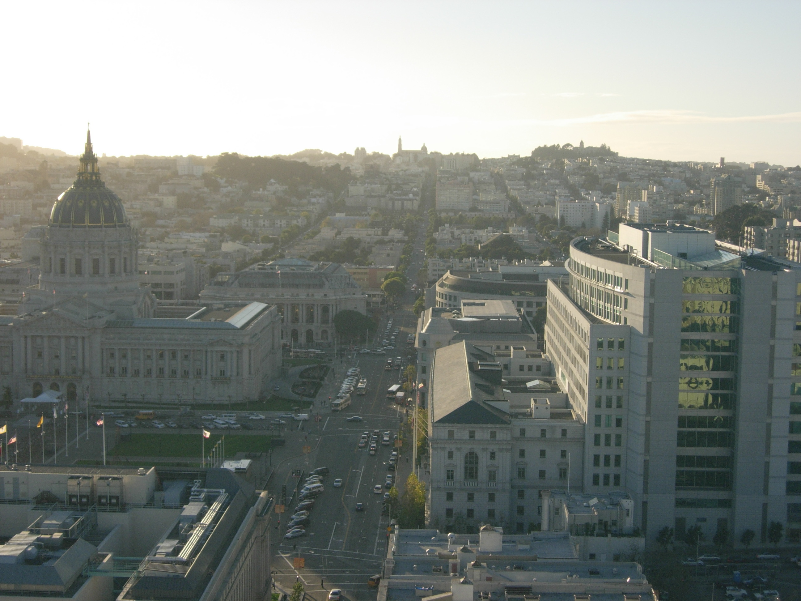 And now it's time for a photo-judicial tour of San Francisco. These pictures are from the 24th floor of the UC Hastings tower where I live. Here, you can see City Hall (the big domed building) and all three levels of California state courts. The Superior Court for San Francisco County (the trial court) is between Polk and Van Ness; the building is mostly obscured by the headquarters of the First District Court of Appeal and the Supreme Court of California, between Larkin and Polk.